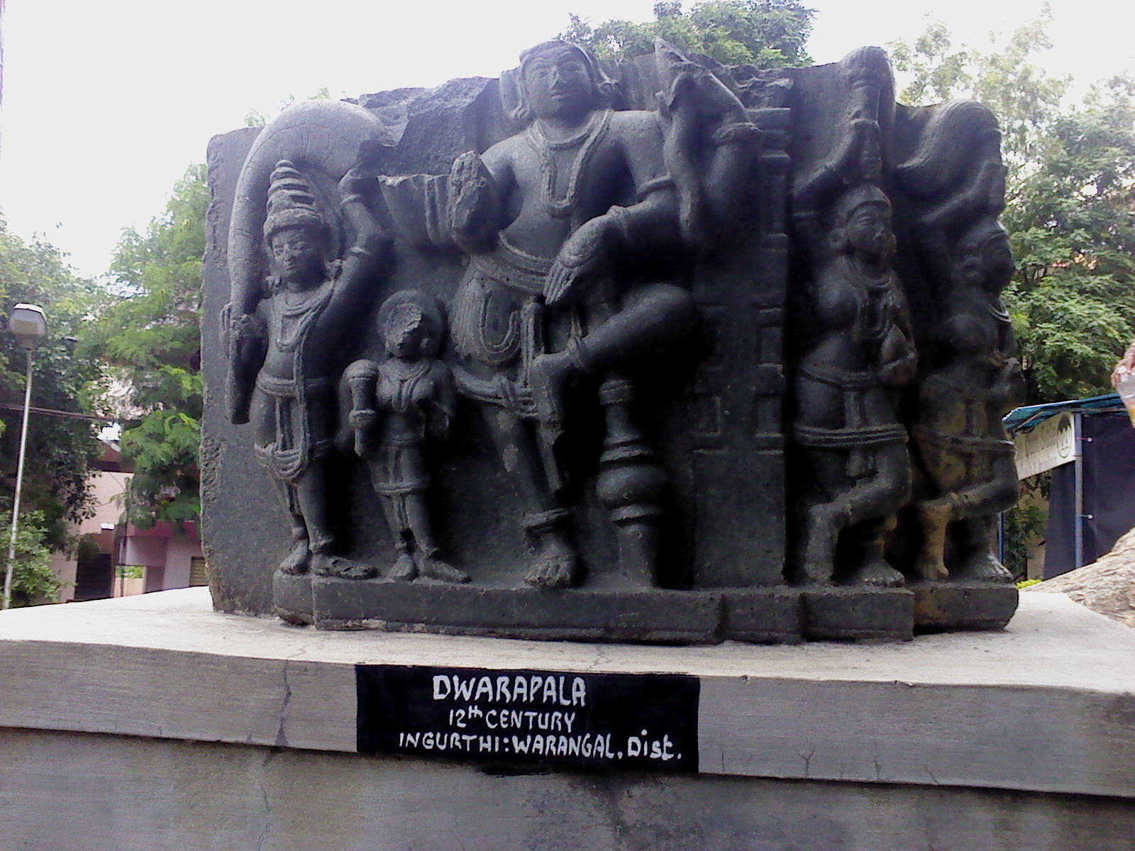 This pic captured by me at Birla planetarium Hyderabad